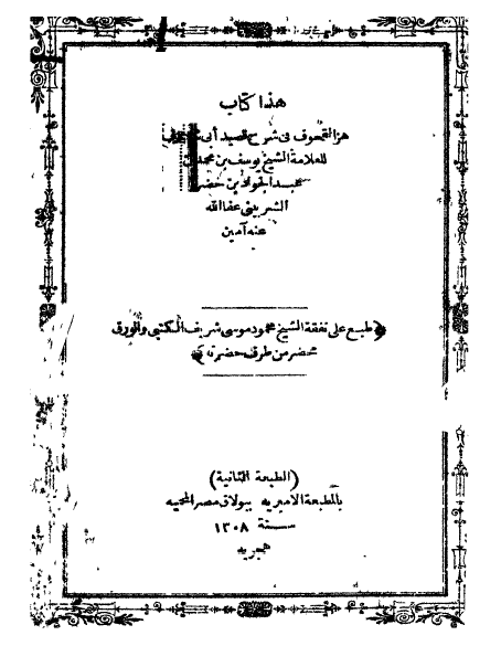 Cover of Hazz al-quhuf - 1308H (c. 1890CE).